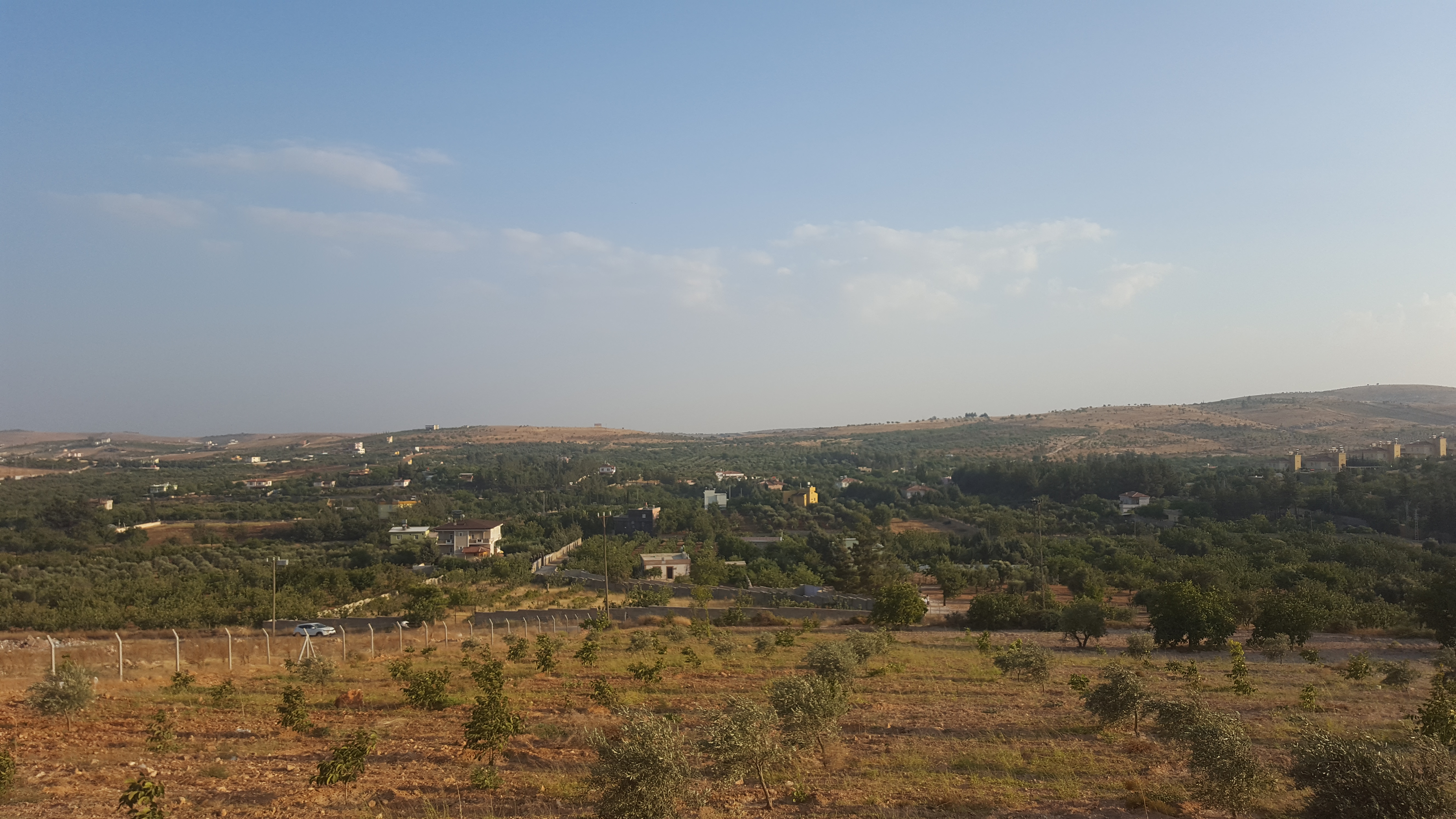 A landscape photo 2 kilometers outside the city of Gaziantep located in Durantaş.